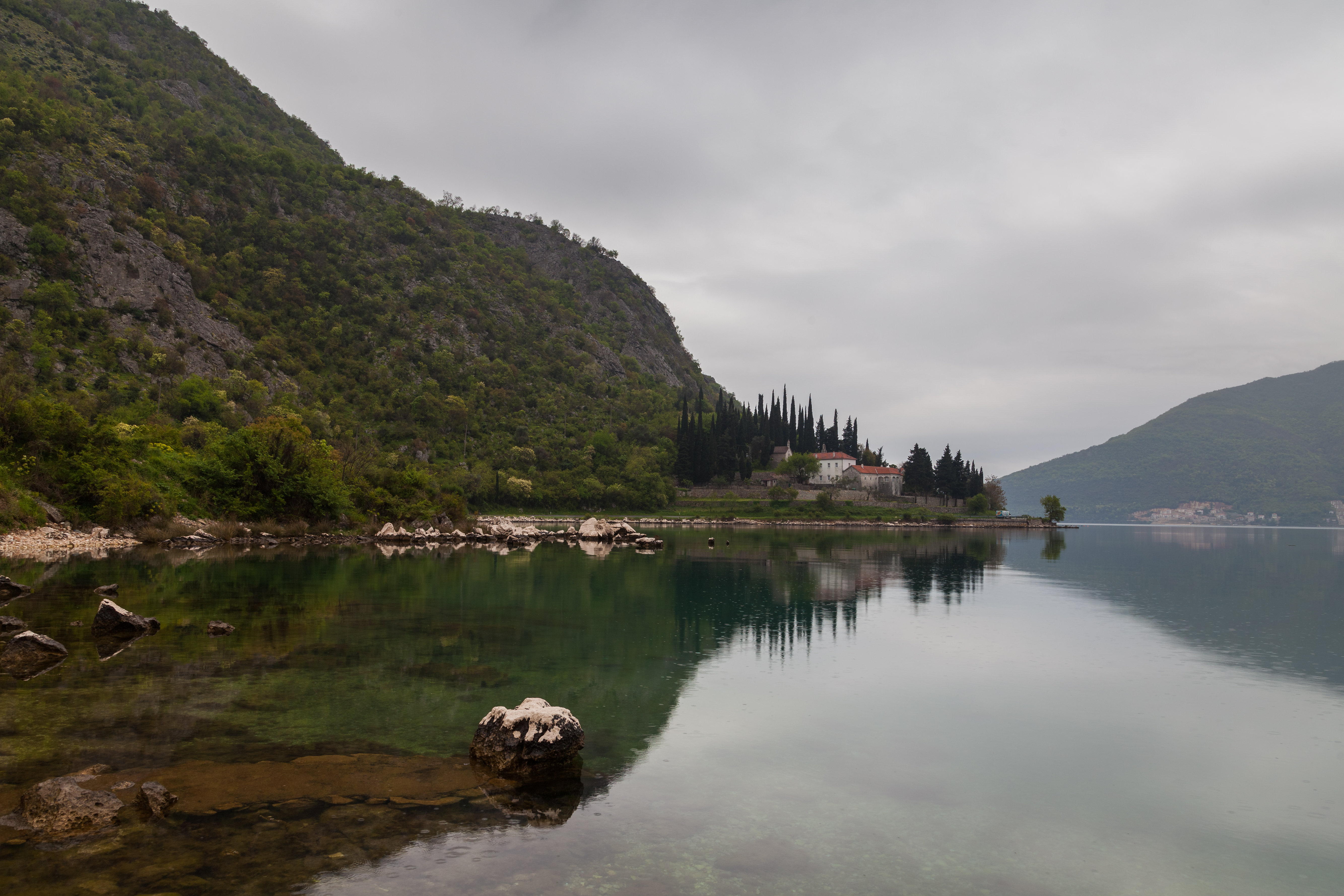 Risan, Bay of Kotor, Montenegro